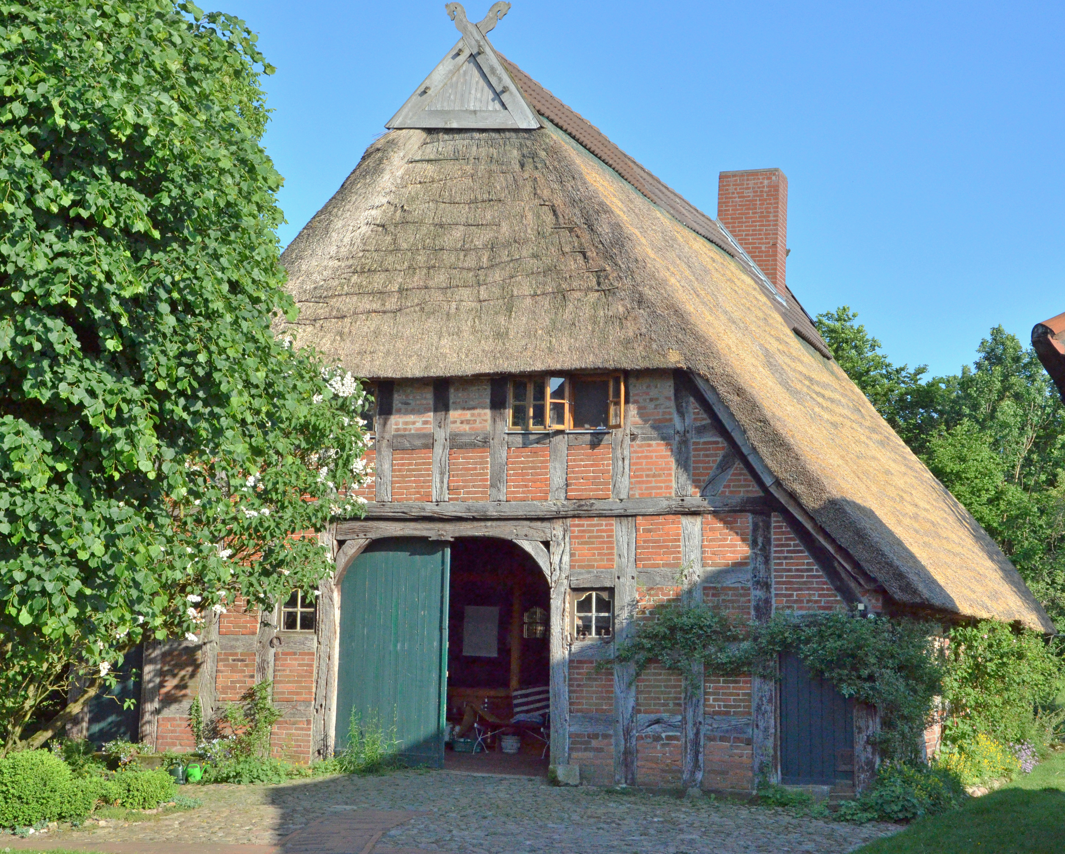 Cultural Heritage Monument in Syke Jardinghausen